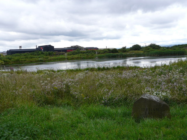 Blackburn Meadows Nature Reserve Blackburn Meadows Sheffield Wildlife Trust nature reserve, with Magna Science Adventure Park in the background.